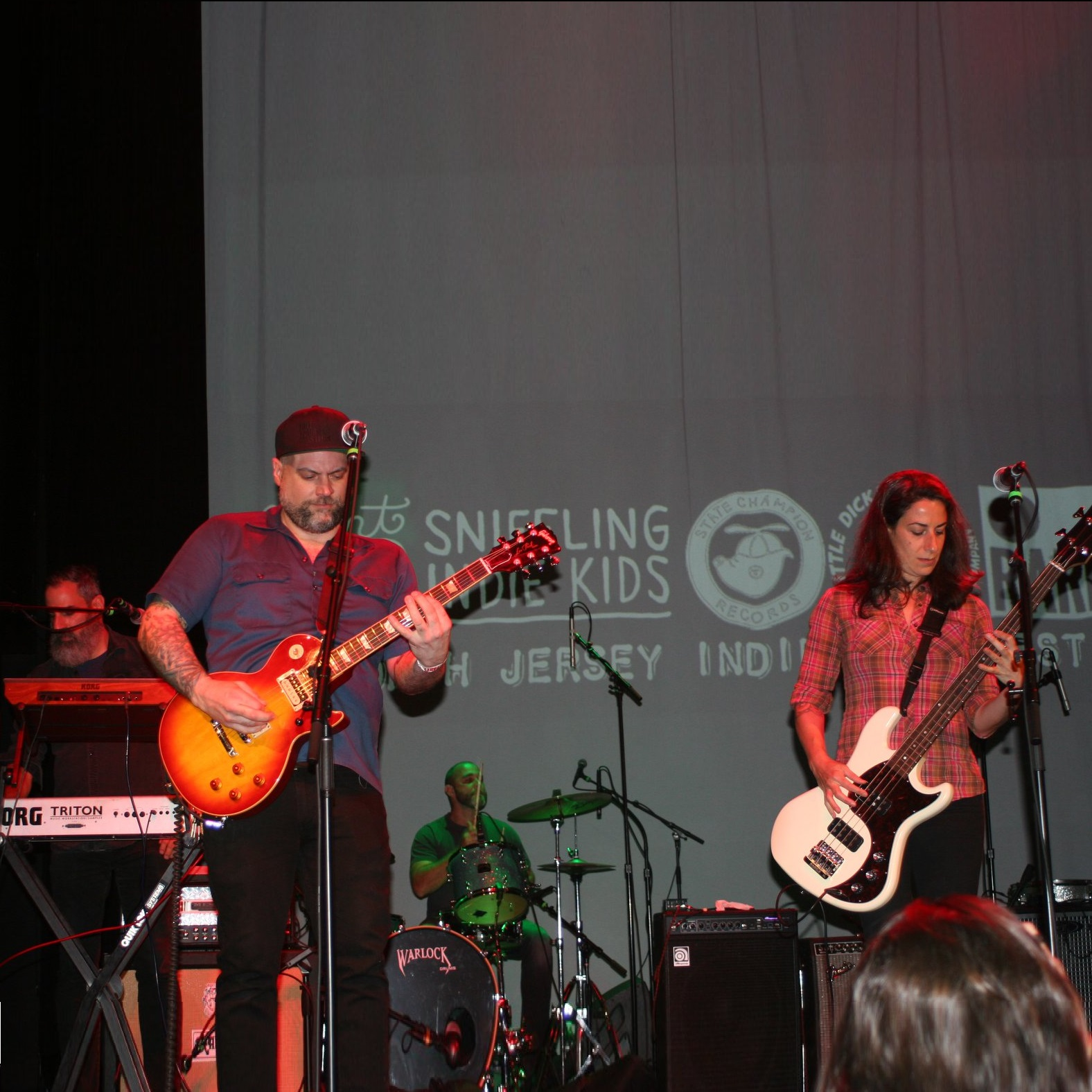 Black Wail at the 2018 North Jersey Indie Rock Festival.